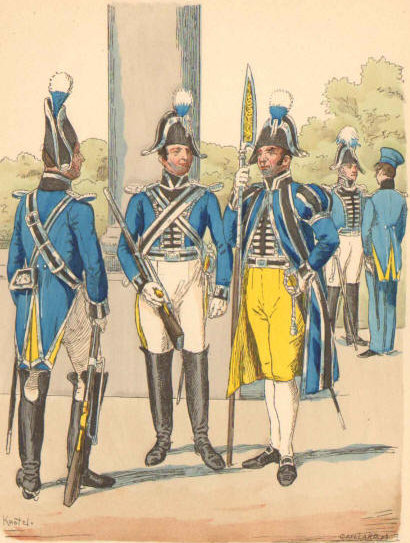 Bavarian Hartschiere 1835